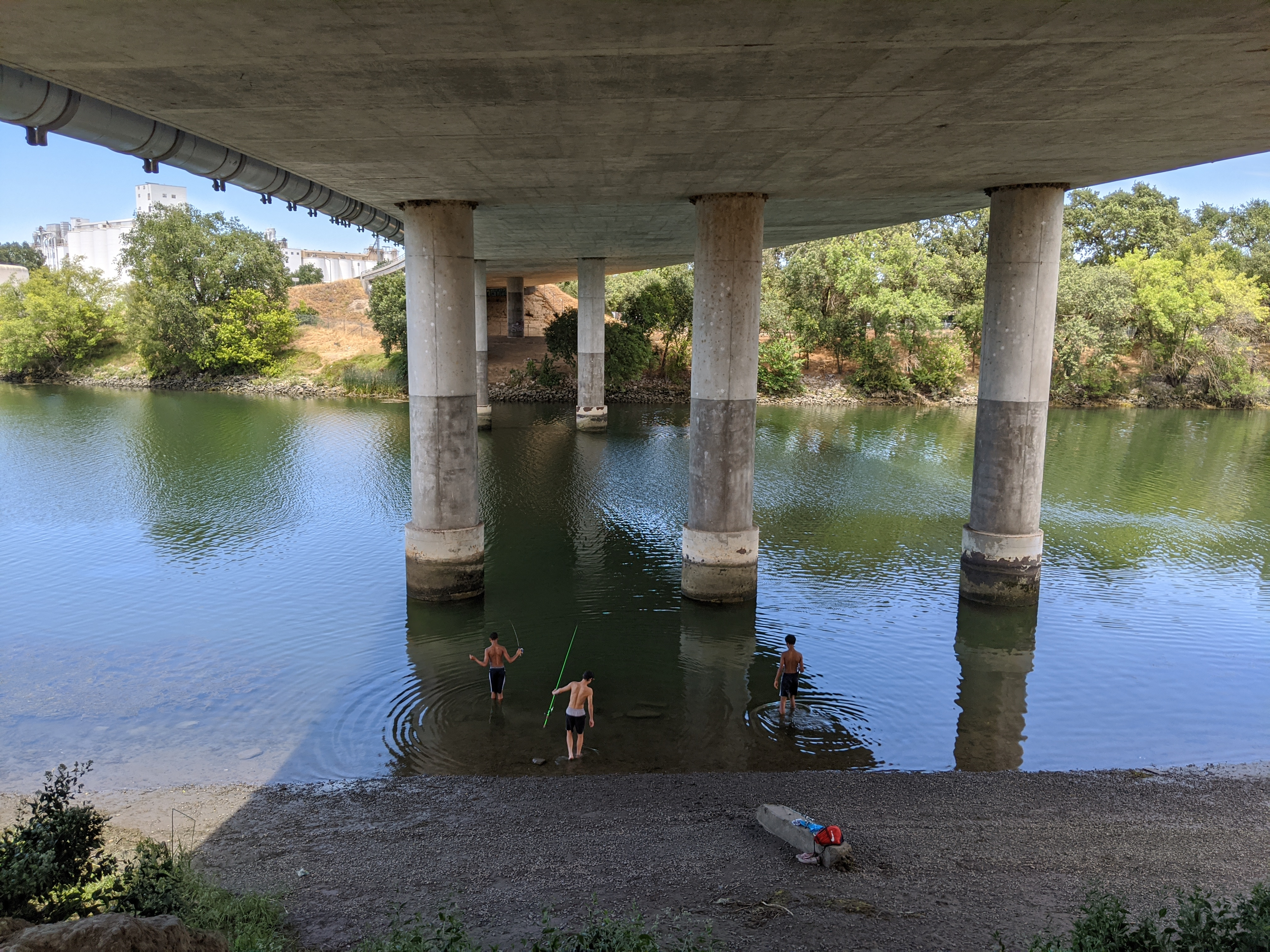 Boys fishing under the Daniel C. Palamidessi Bridge, Sacramento Deep Water Ship Channel, West Sacramento, California